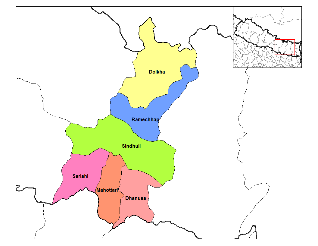 Map of the districts of Janakpur Zone (wp-EN) in Nepal. Created by Rarelibra 18:58, 18 September 2006 (UTC) for public domain use, using MapInfo Professional v8.5 and various mapping resources.